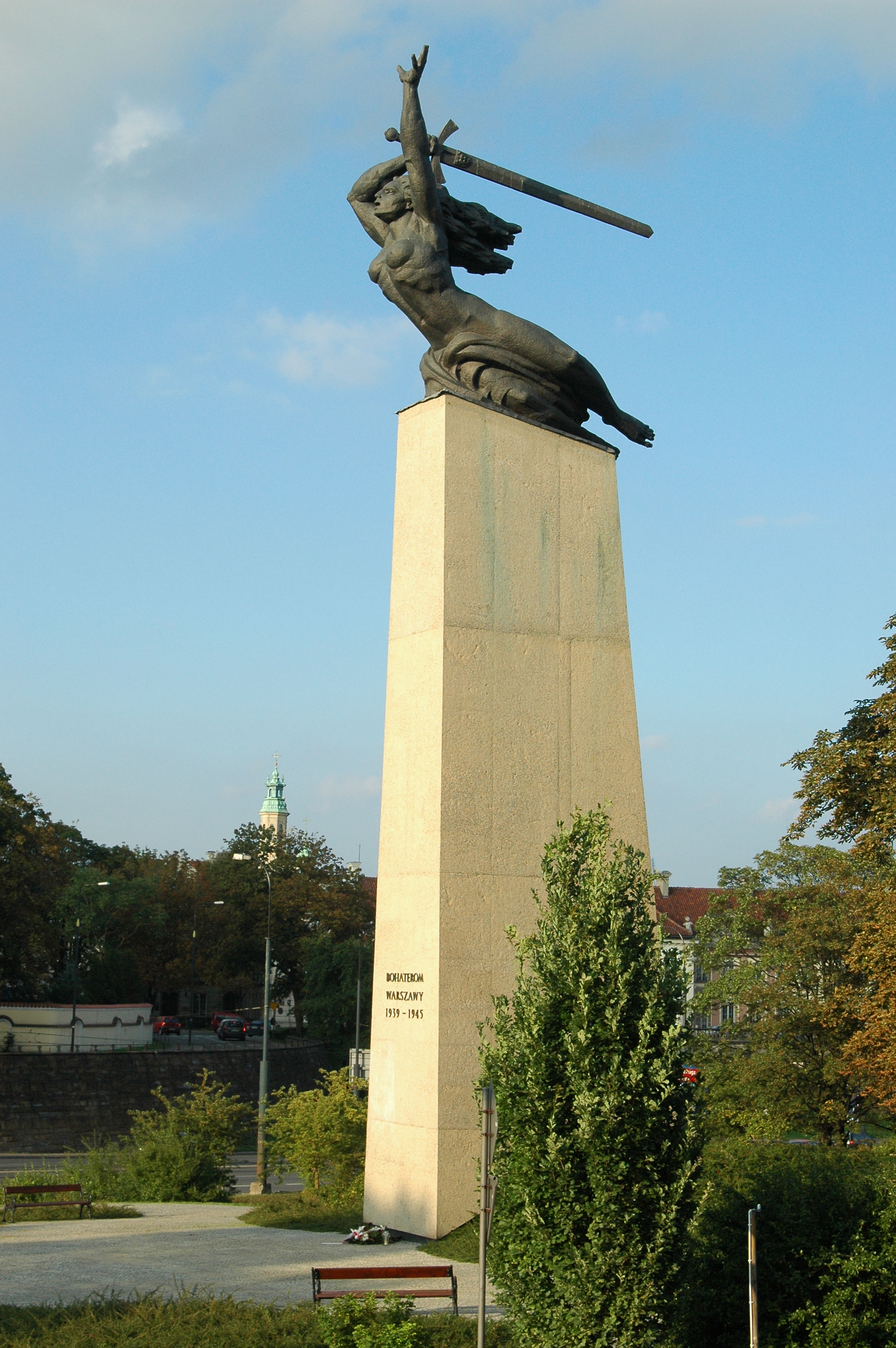 Monument of Nike of Warsaw, devoted to all the heroes of Warsaw of WWII